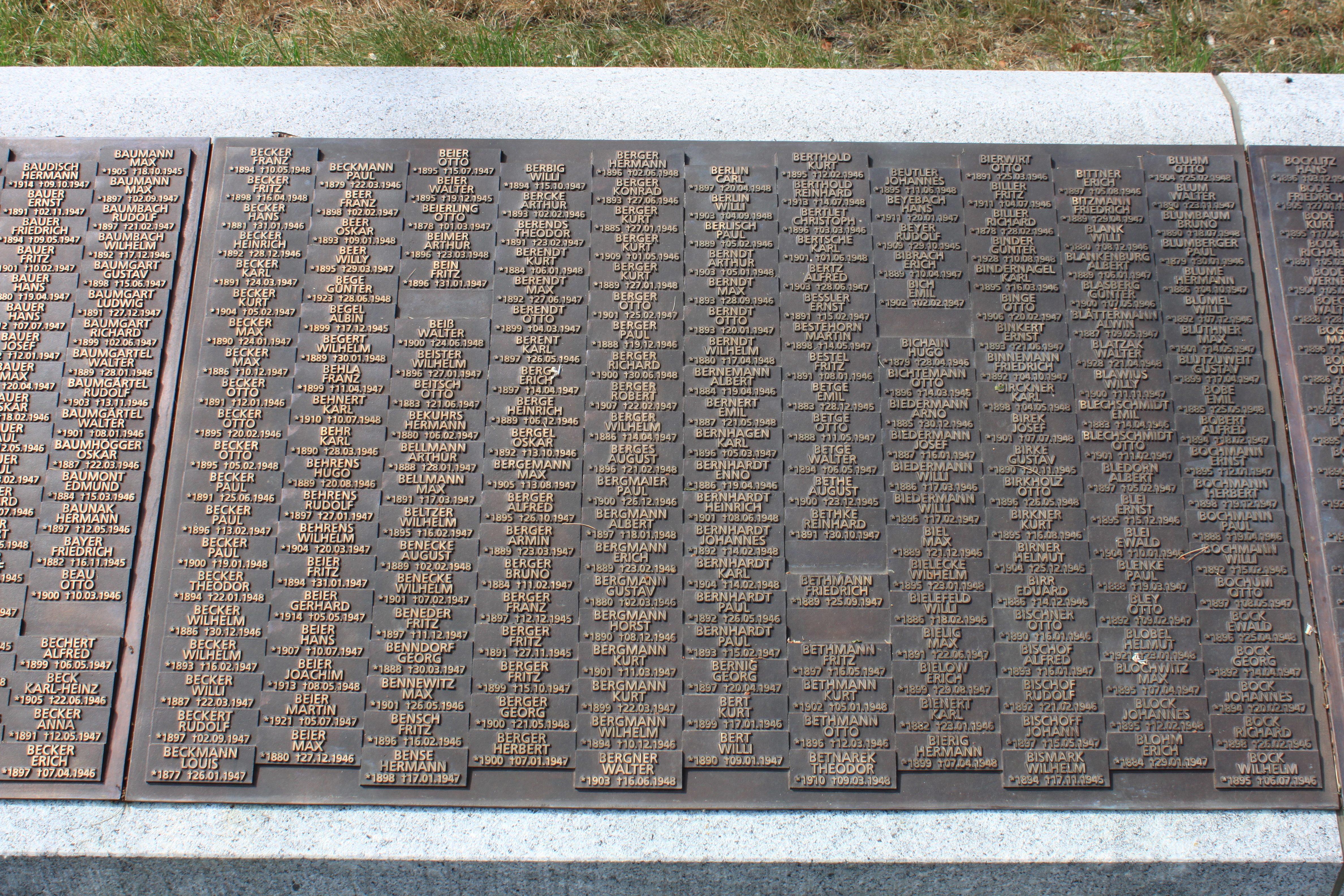 Memorial of the Stalag IVB/Speziallager Nr. 1 Mühlberg/Elbe